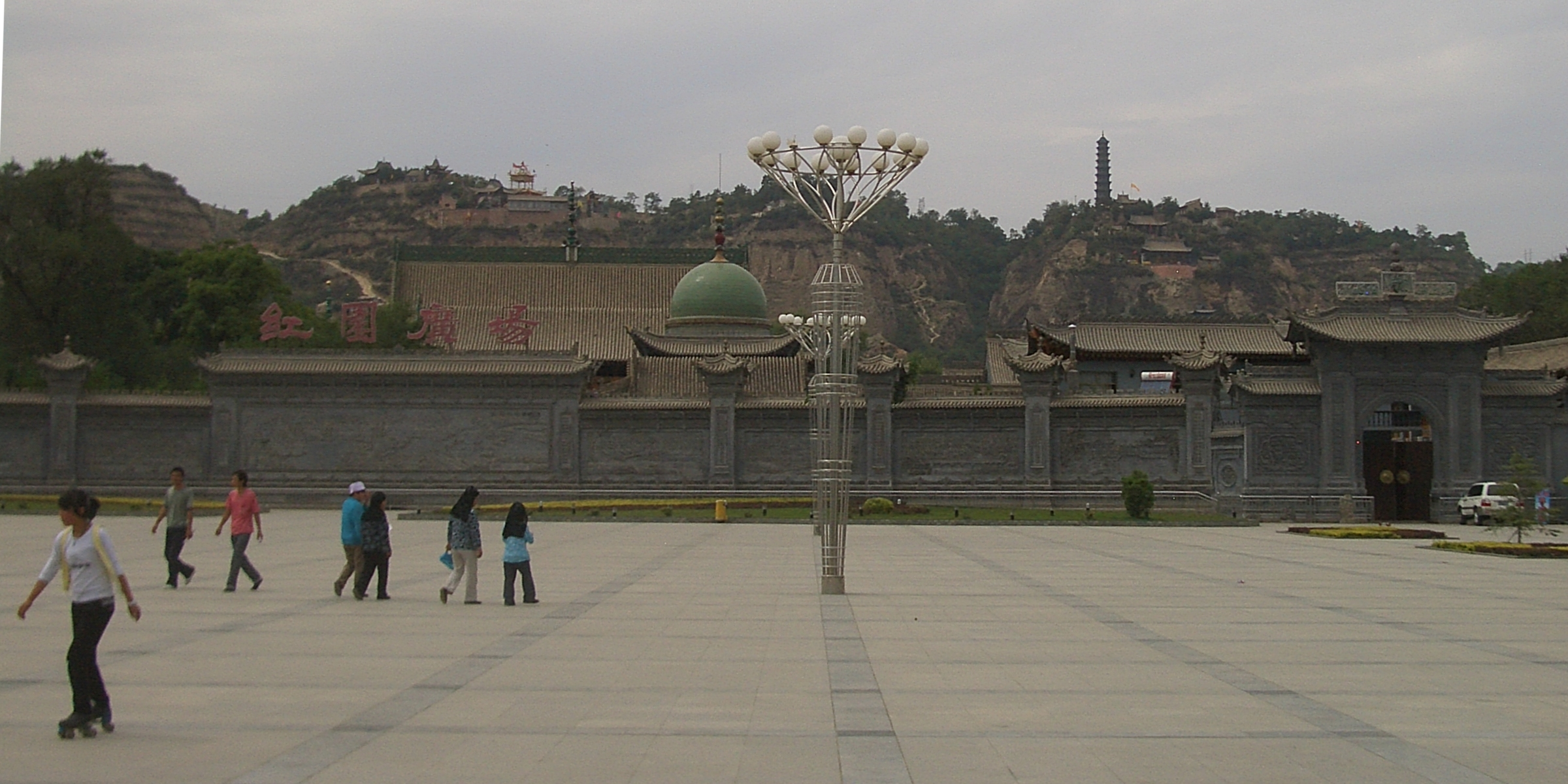 The square south of the wall and southern gate of Hongyuan Park (pictured). Looking north toward the escarpment of the loess plateau north of town, with the pagoda of Wanshou Guan on top